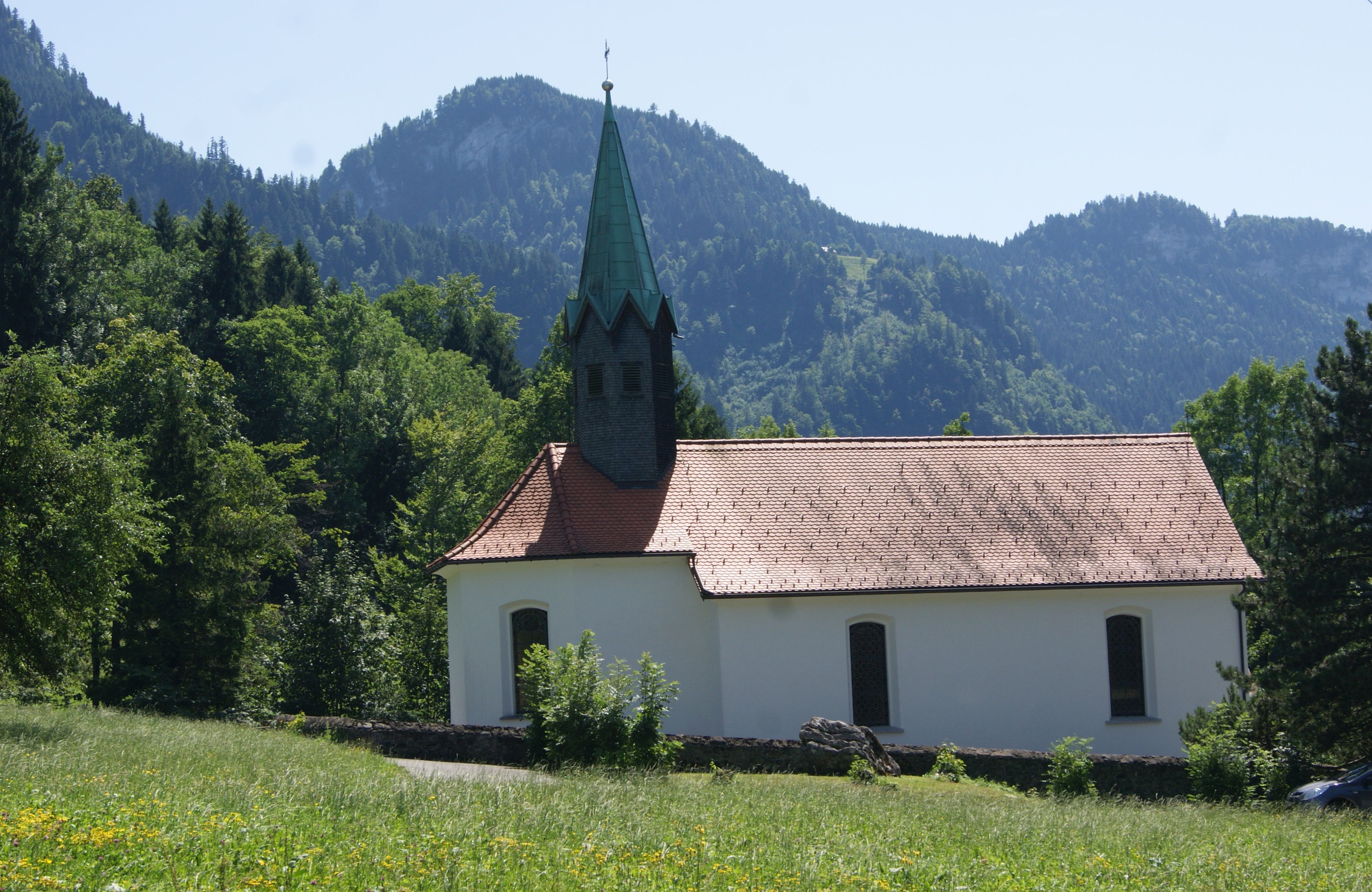 Chapel St. Rochus in Hohenems, Vorarlberg, Austria.